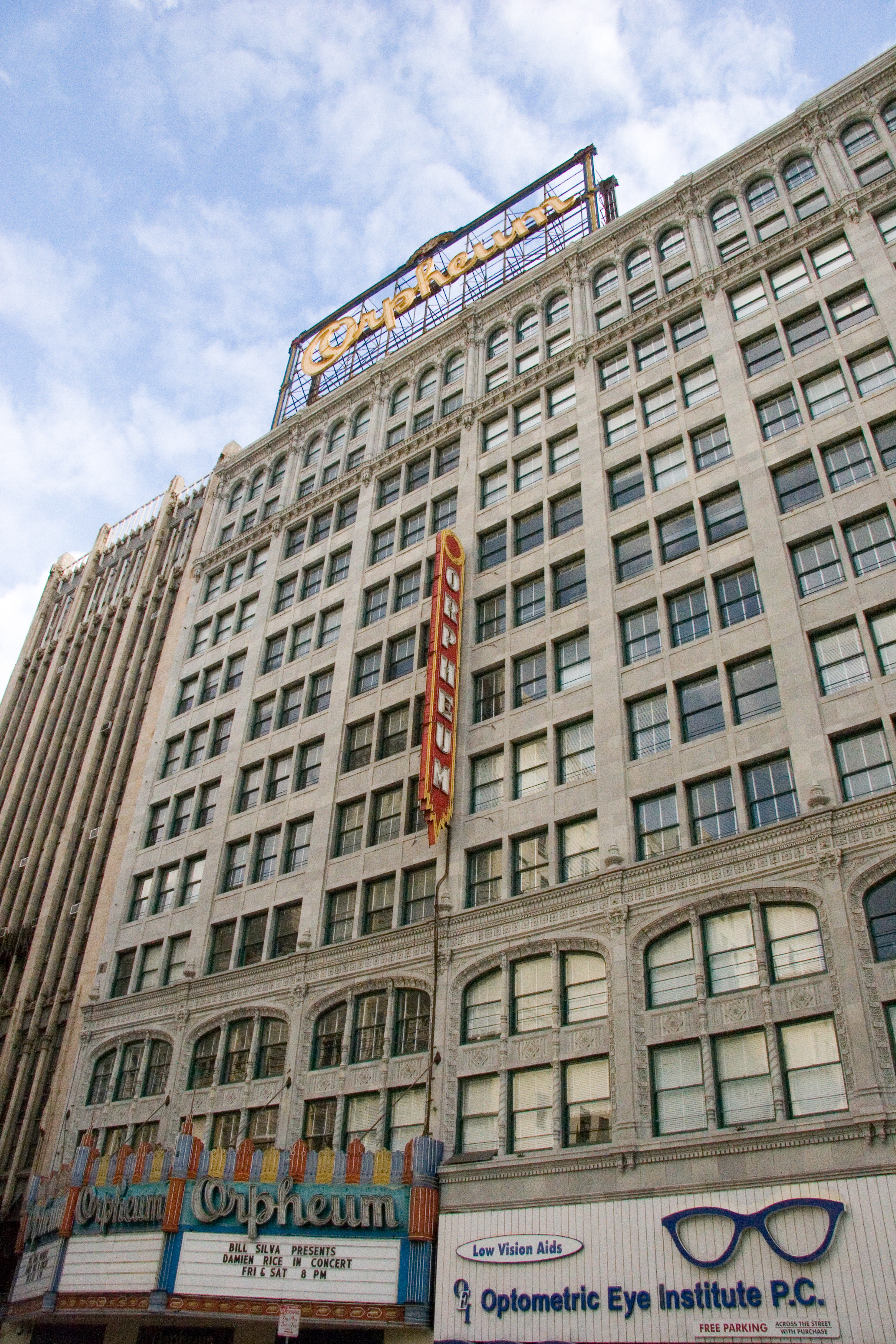 The Orpheum Theatre on Broadway in downtown Los Angeles, California